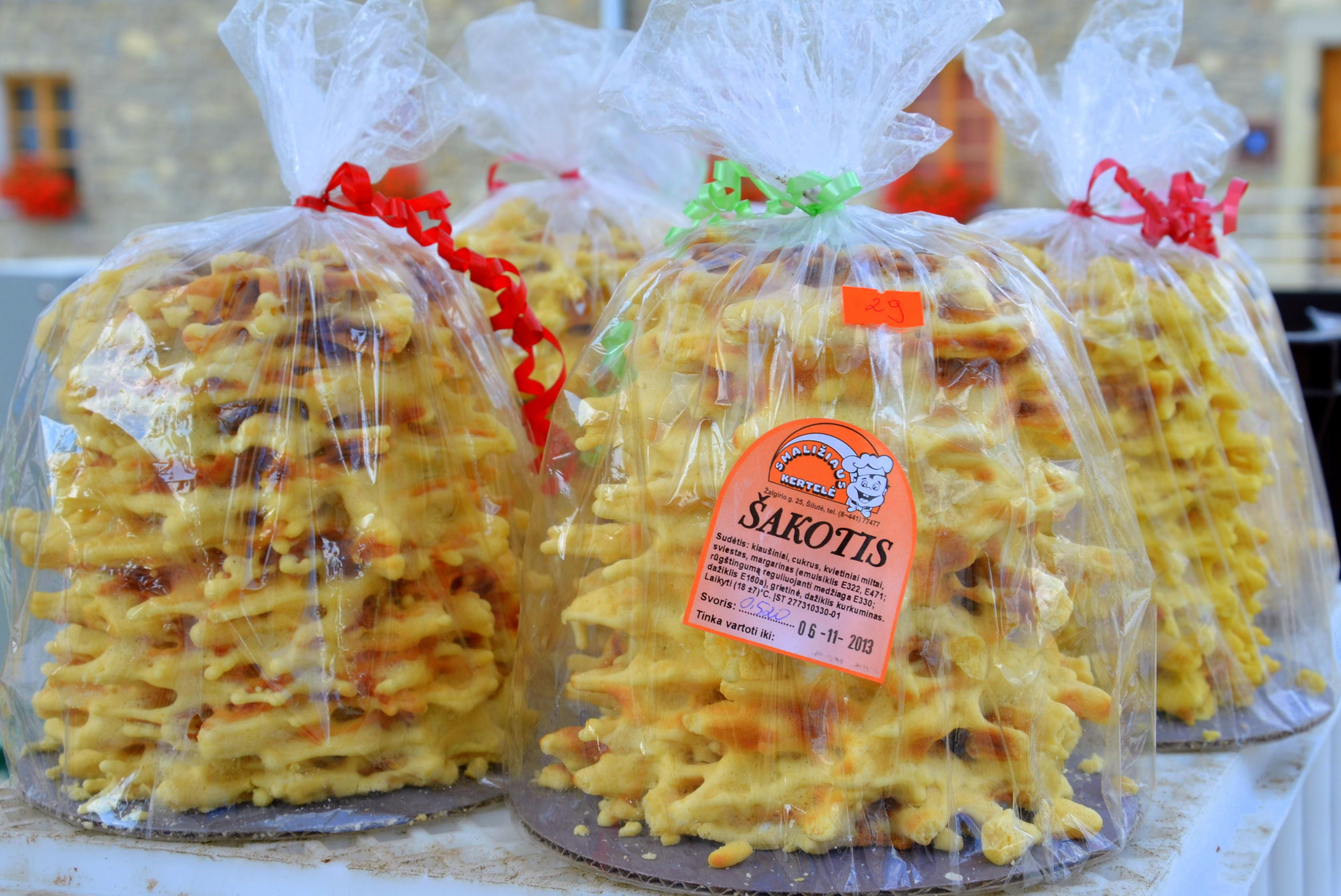 Baumkuchen